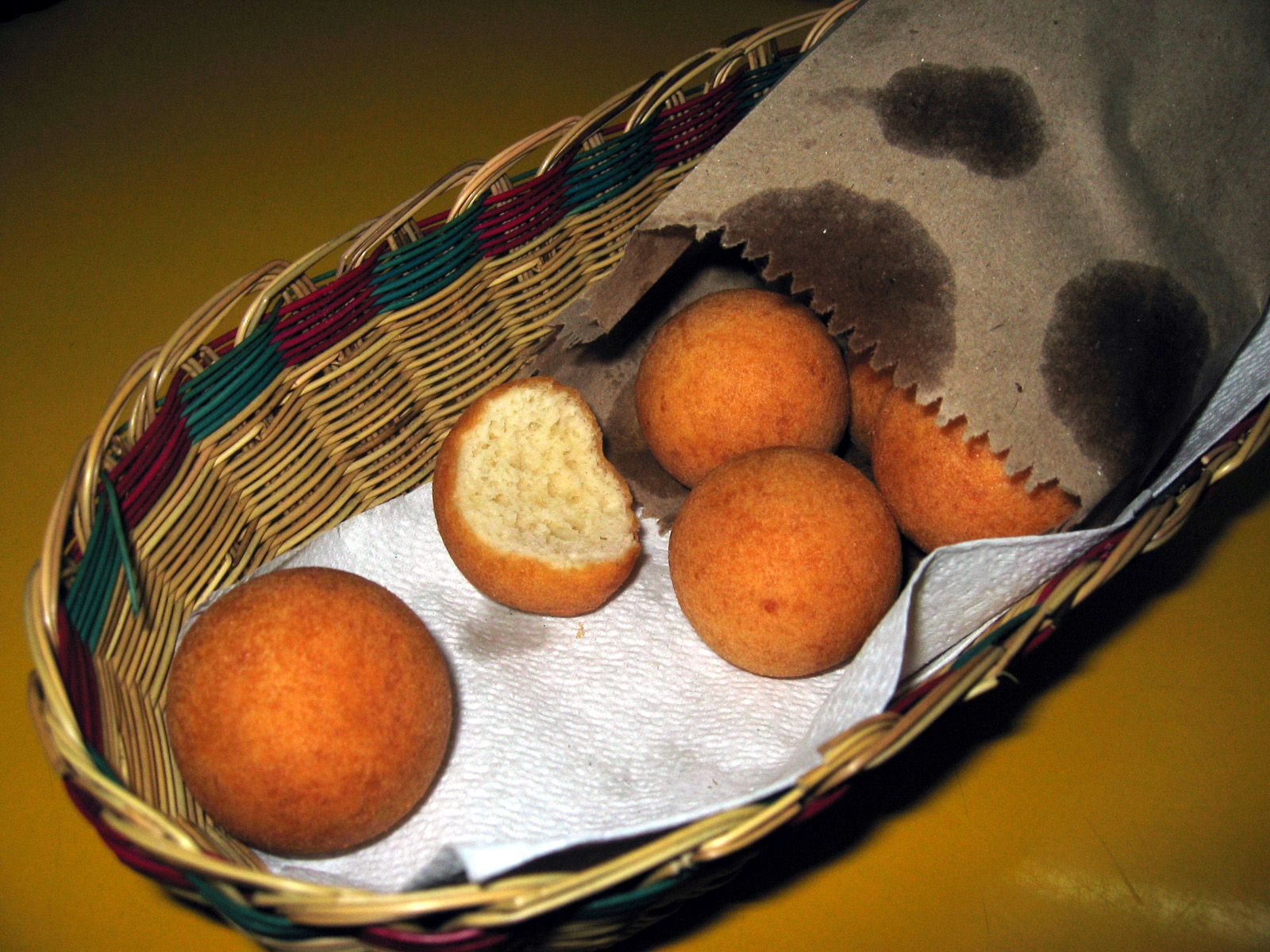 Delicious buñuelitos. Photo by Fisherjs, edited by Sagredo (contrast and brightness adjustment)